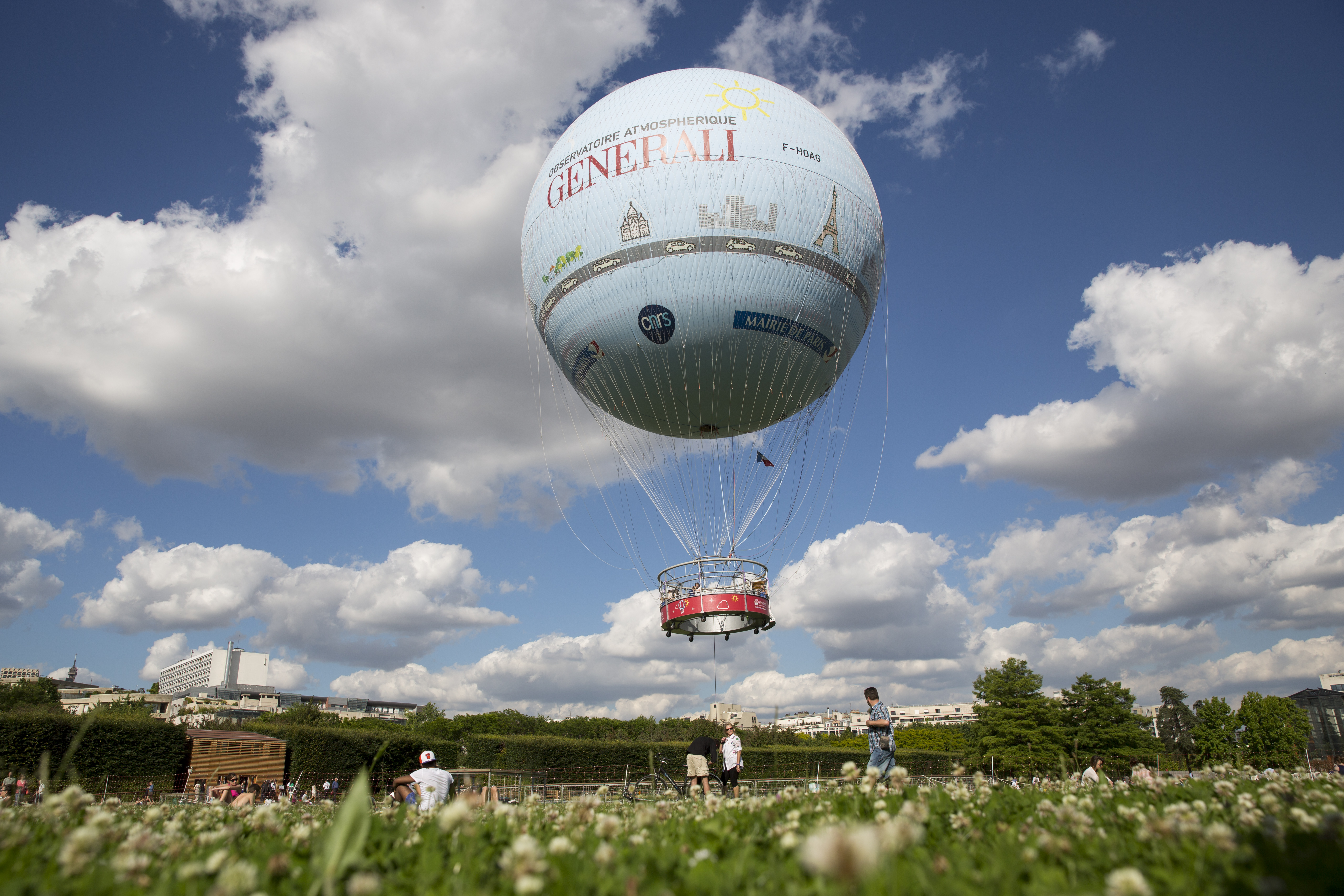 Ballon Generali taking off at Parc André Citroën, Paris, France.